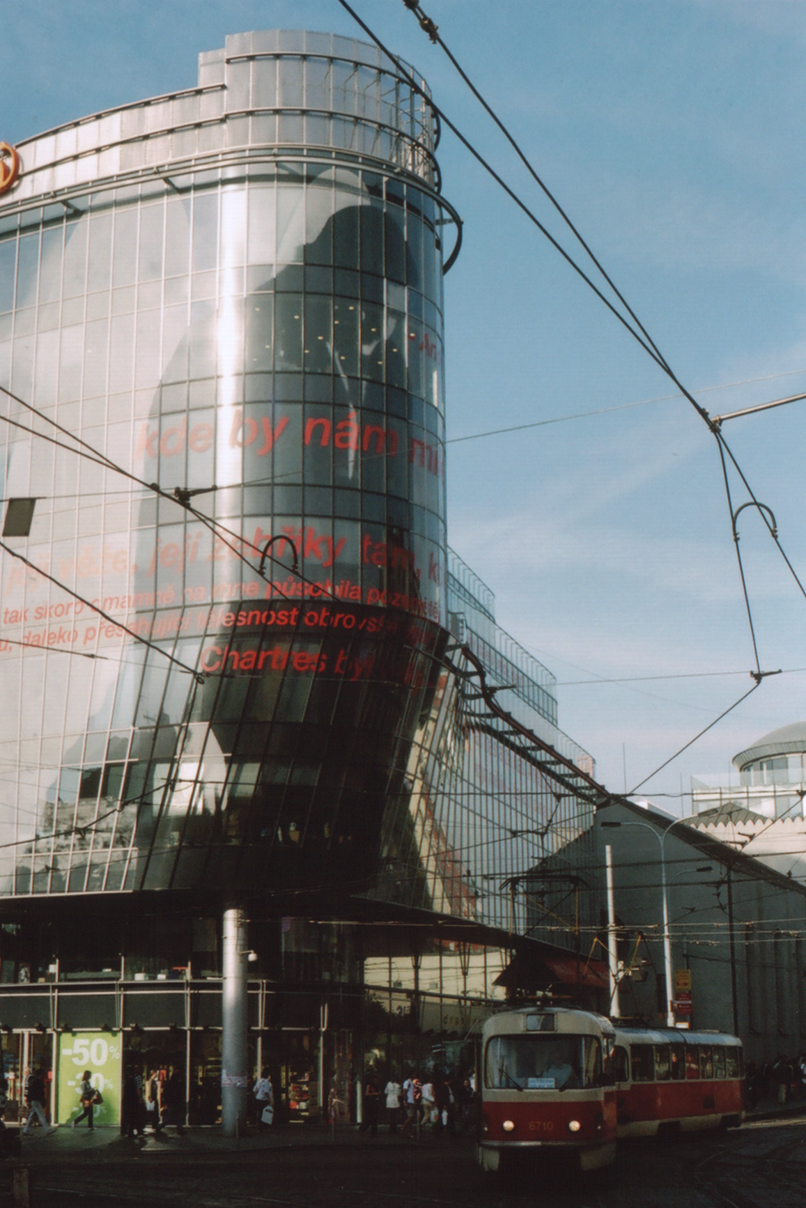 Building by Jean Nouvel, Anděl (en Angel), Smíchov, Prague, an angel from Wings of Desire looks from its facade. A house with a statue of an angel on its facade used to be there, demolished in the 1980s when a metro station was build (the public transport station was renamed from Anděl to Moskevská [after Moscow] at that time). ČKD Tatra-T3 tram passing by - the tram was manufactured in the former Ringoffer factory, whose entrance gate was 100 meters from Anděl (in 1999 demolished, replaced by supermarket). A Jewish synagogue in the shadow.